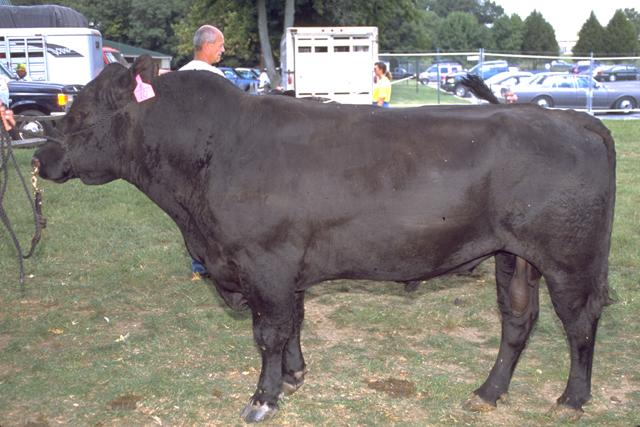 Angus cattle 18 from Angus cattle 18 thumbnail Image Number: 01cs1263 CD3945-067 Showing angus steer at the Prince George?s County fair. USDA Photo by: Bill Tarpenning